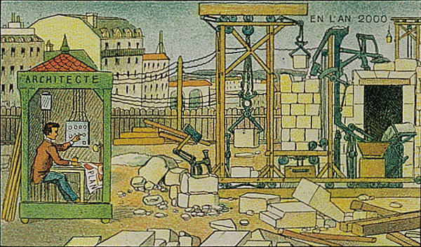 France in 2000 year (XXI century). Building Site. France, paper card.